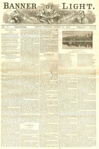 Cover of the Boston-based spiritualist journal Banner of Light